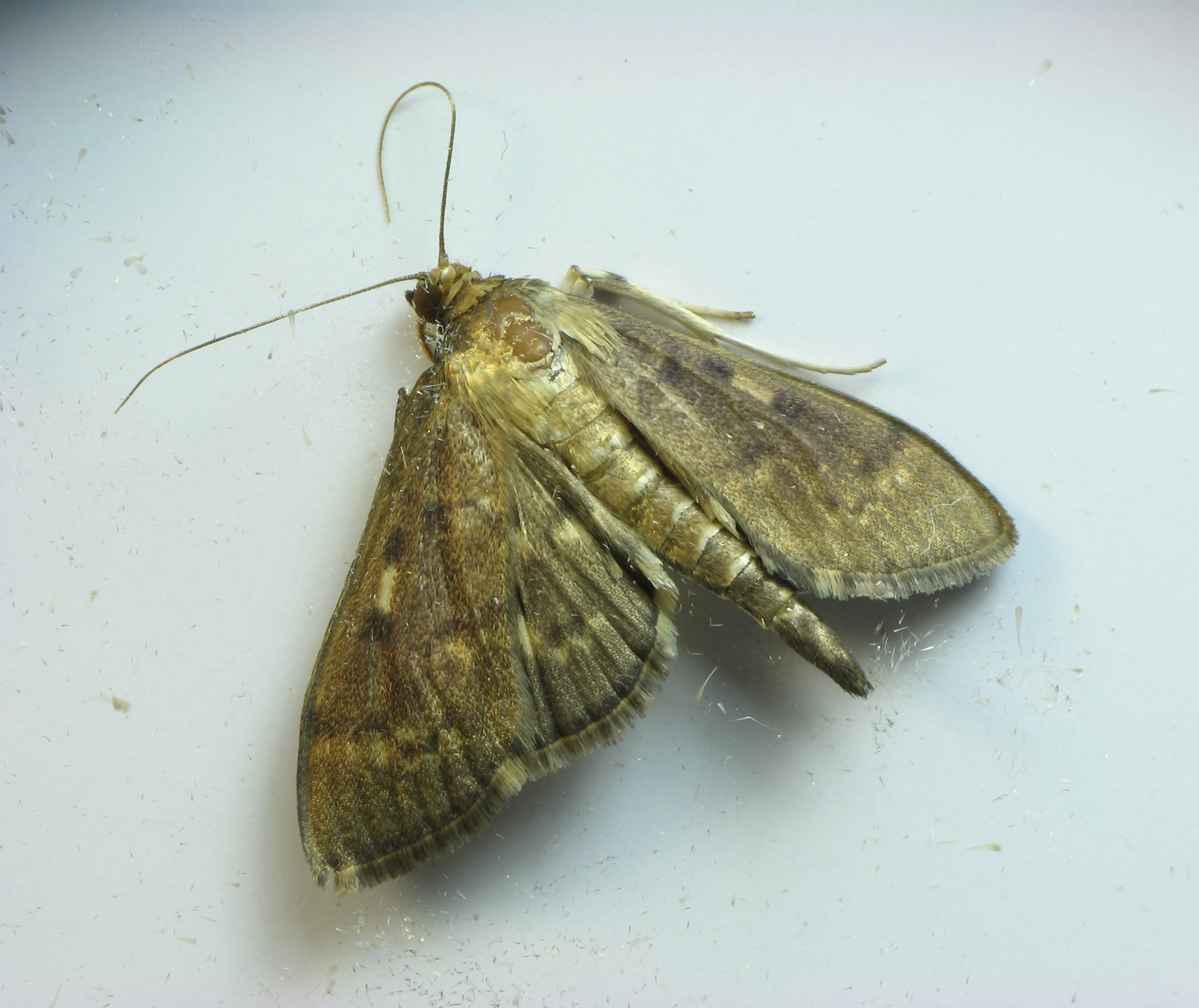 Crambid moth, Herpetogramma aeglealis (Serpentine Webworm - Hodges#5280), from caterpillar on wild ginger. Size: ~14 mm, wingspan: ~30 mm. Opossum Creek Retreat, Fayette County, West Virginia, USA.